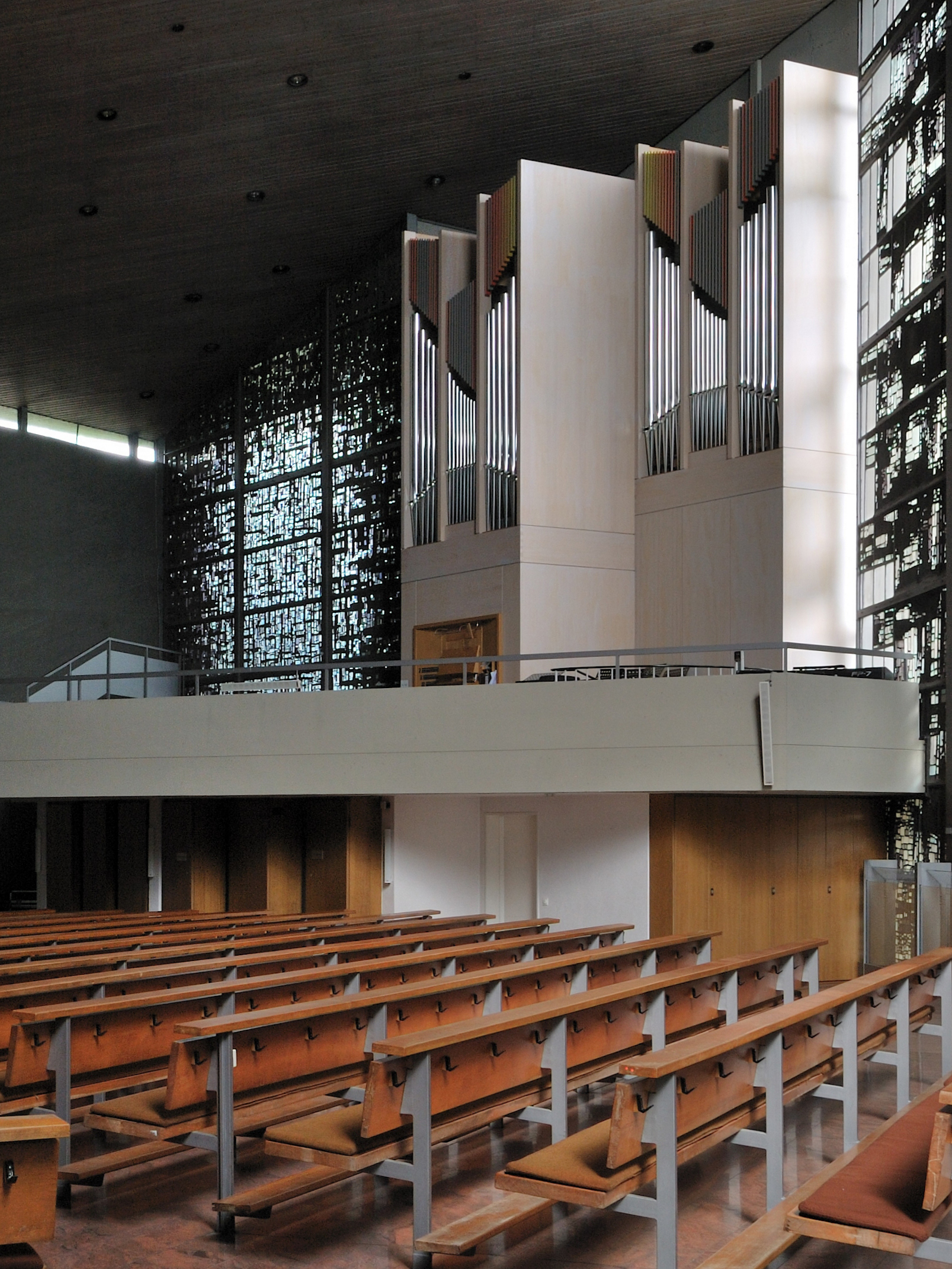 Organ in the St. Maria, a catholic church of Ditzingen in Germany.